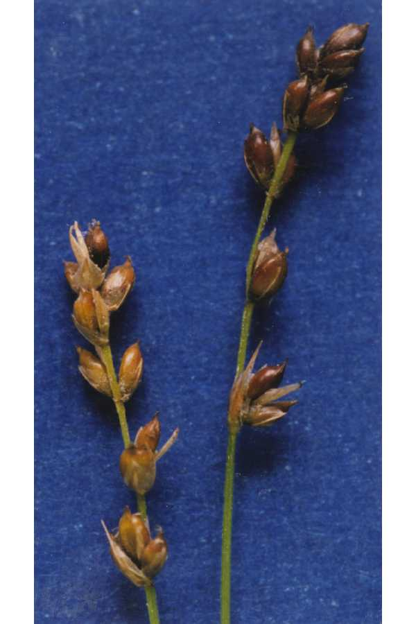 inflorescences of Carex disperma from Hurd, E.G., N.L. Shaw, J. Mastrogiuseppe, L.C. Smithman, and S. Goodrich. 1998. Field guide to Intermountain sedges. General Technical Report RMS-GTR-10. USDA Forest Service, RMRS, Ogden. Courtesy of USDA FS RMRS Boise Aquatic Sciences Lab.